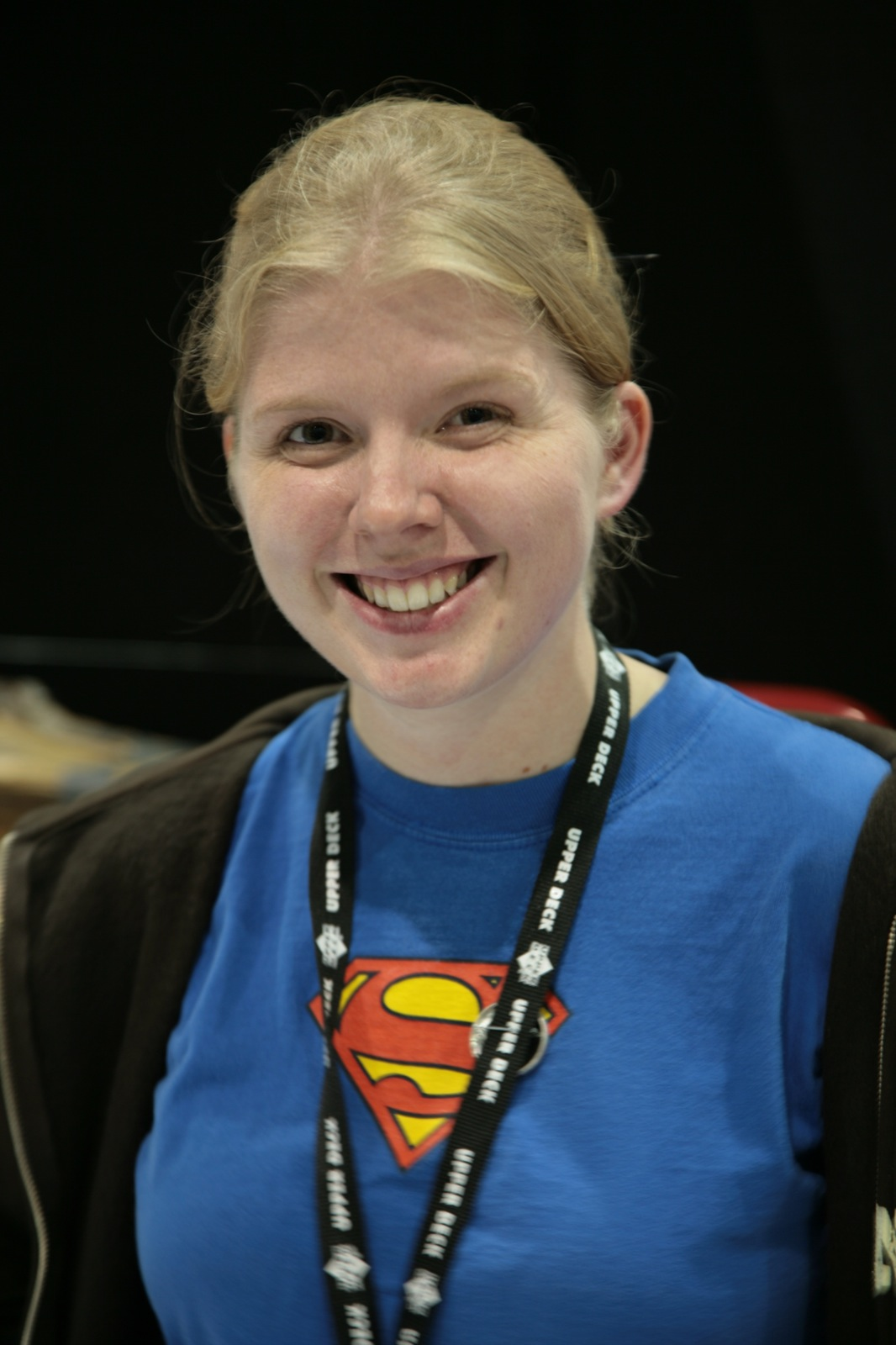 Photo of Katie Cook taken by Nicole Love at Comic-Con 2007.